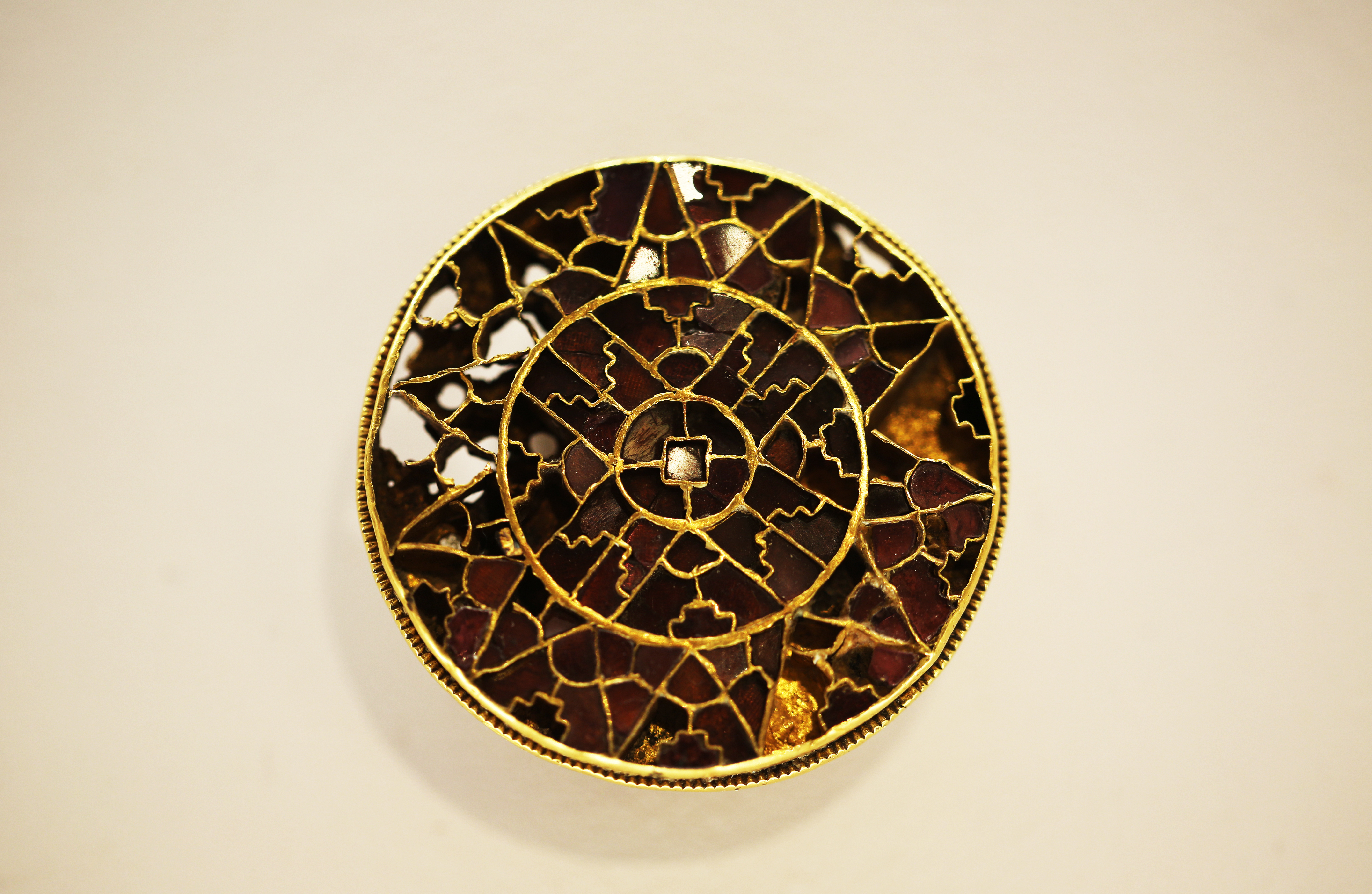 Merovingian fibulae, Hürth North Rhine-Westphalia, Germany